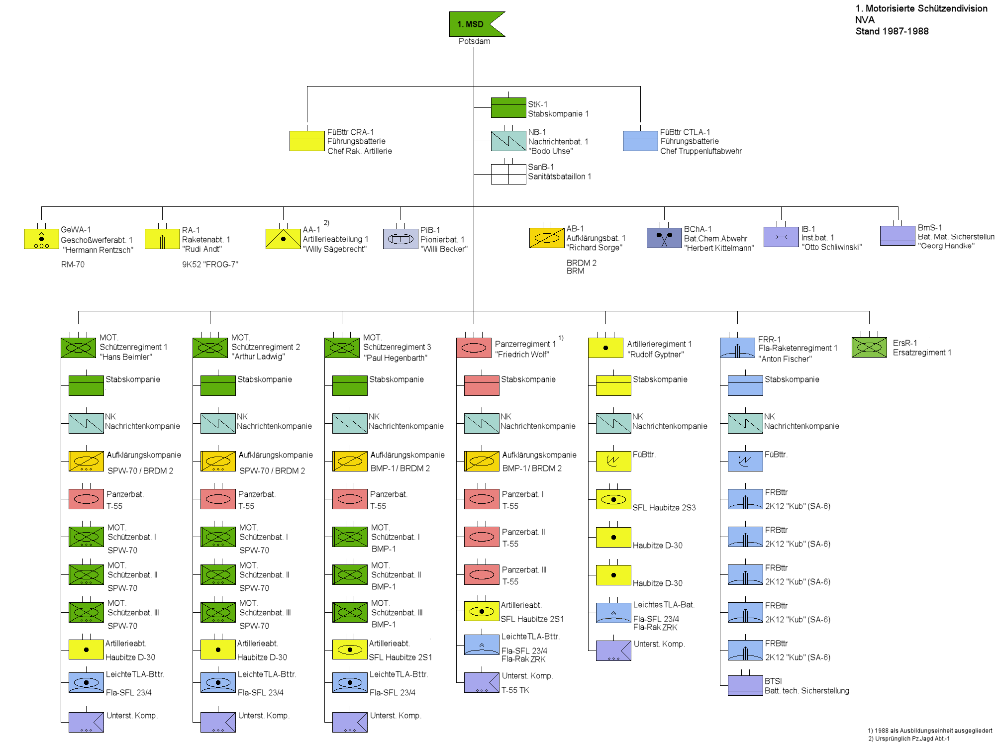 Order of Battle, GDR, 1st Motorized Infantry Division 1987-1988